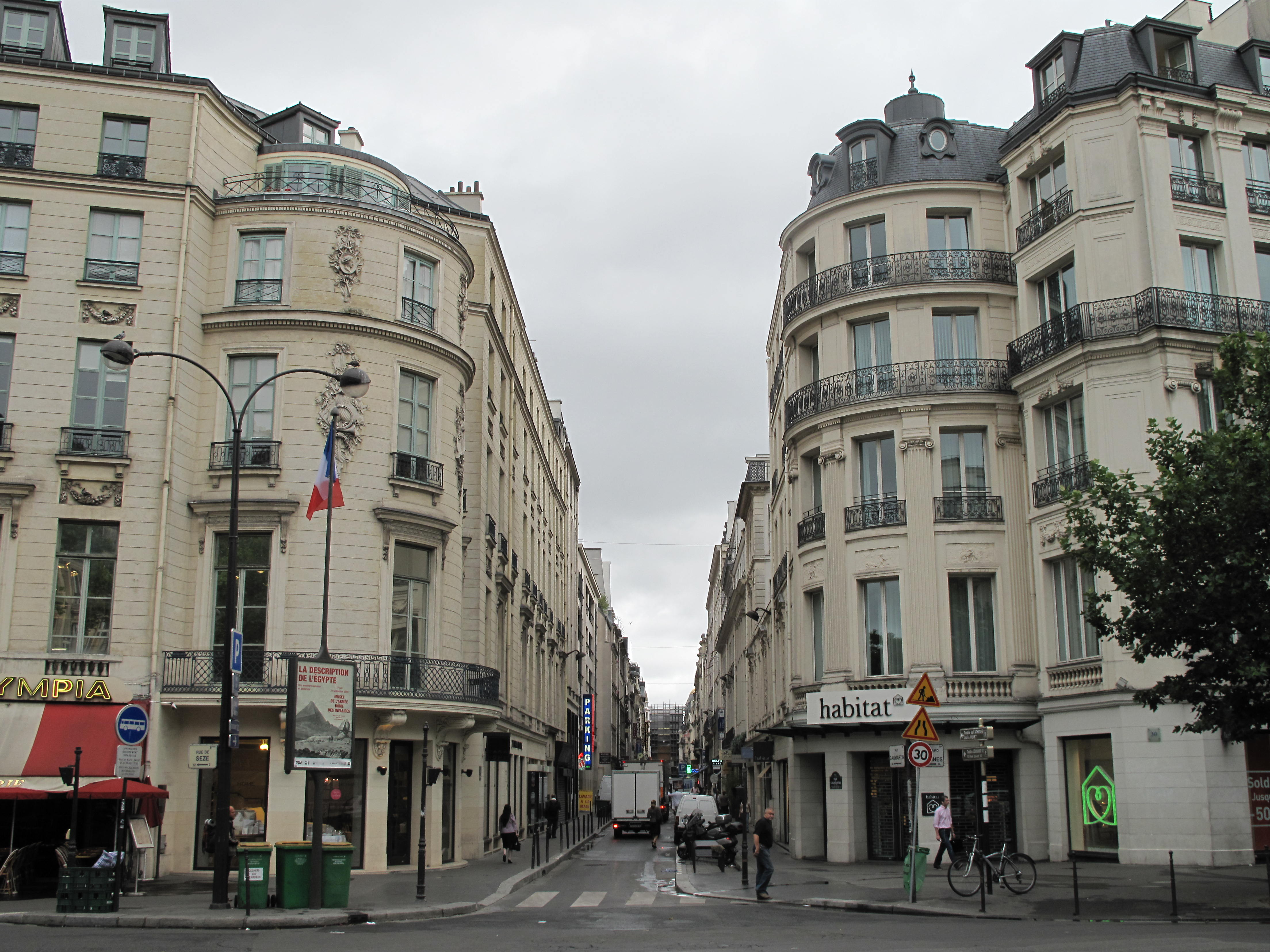 rue de Caumartin, Paris 9th arr. With mansion Marin-Delahaye on the left and mansion d'Aumont on the right, both with an exterior rotunda.